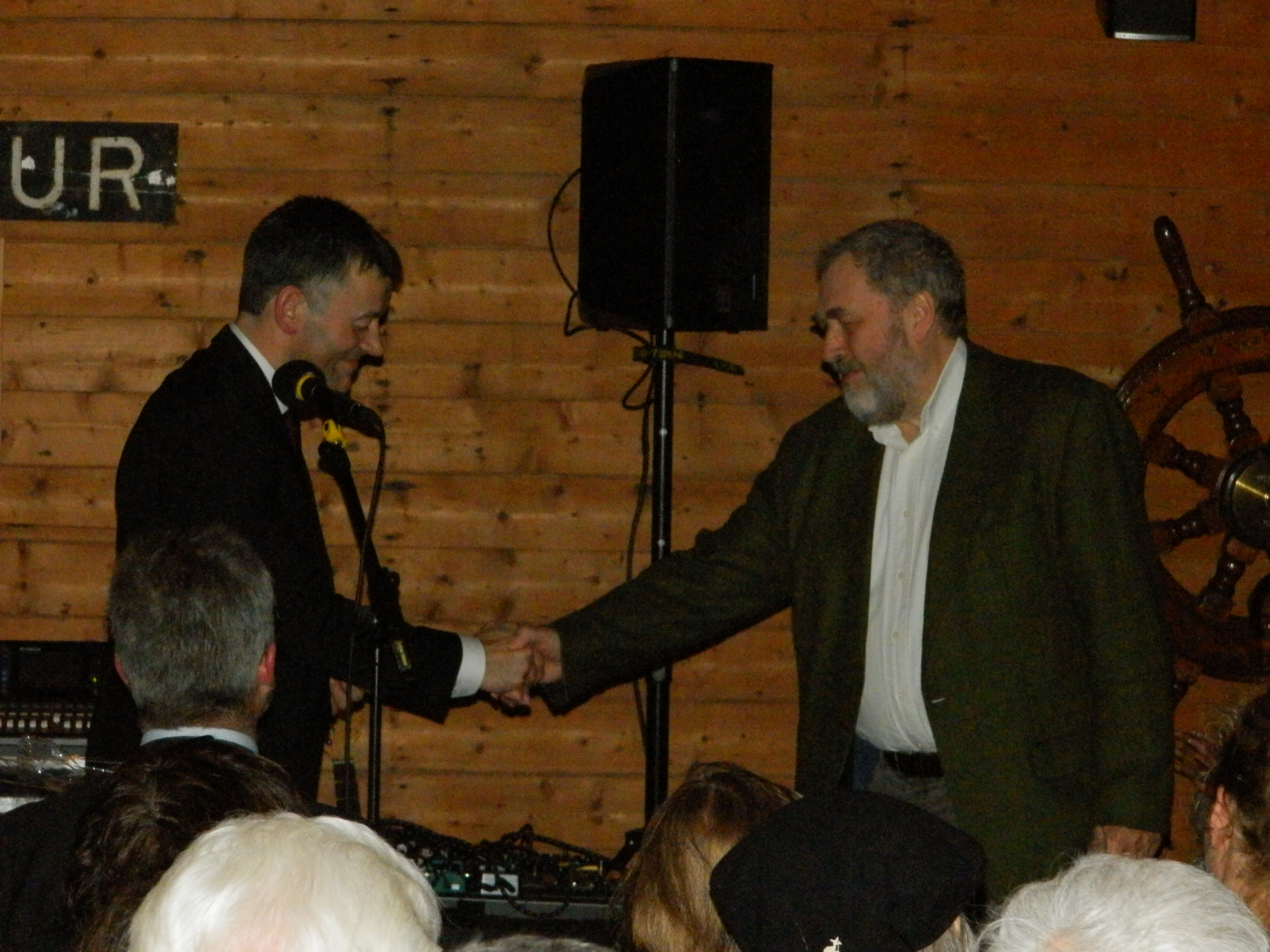 Árni Dahl is a Faroese writer. He was awarded the Faroese Award of Honour 2013 which is 75 000 DKK. Bjørn Kalsø, Minister of Culture handed the award in Stóra Pakkhús in Vágur on 15 January 2014.